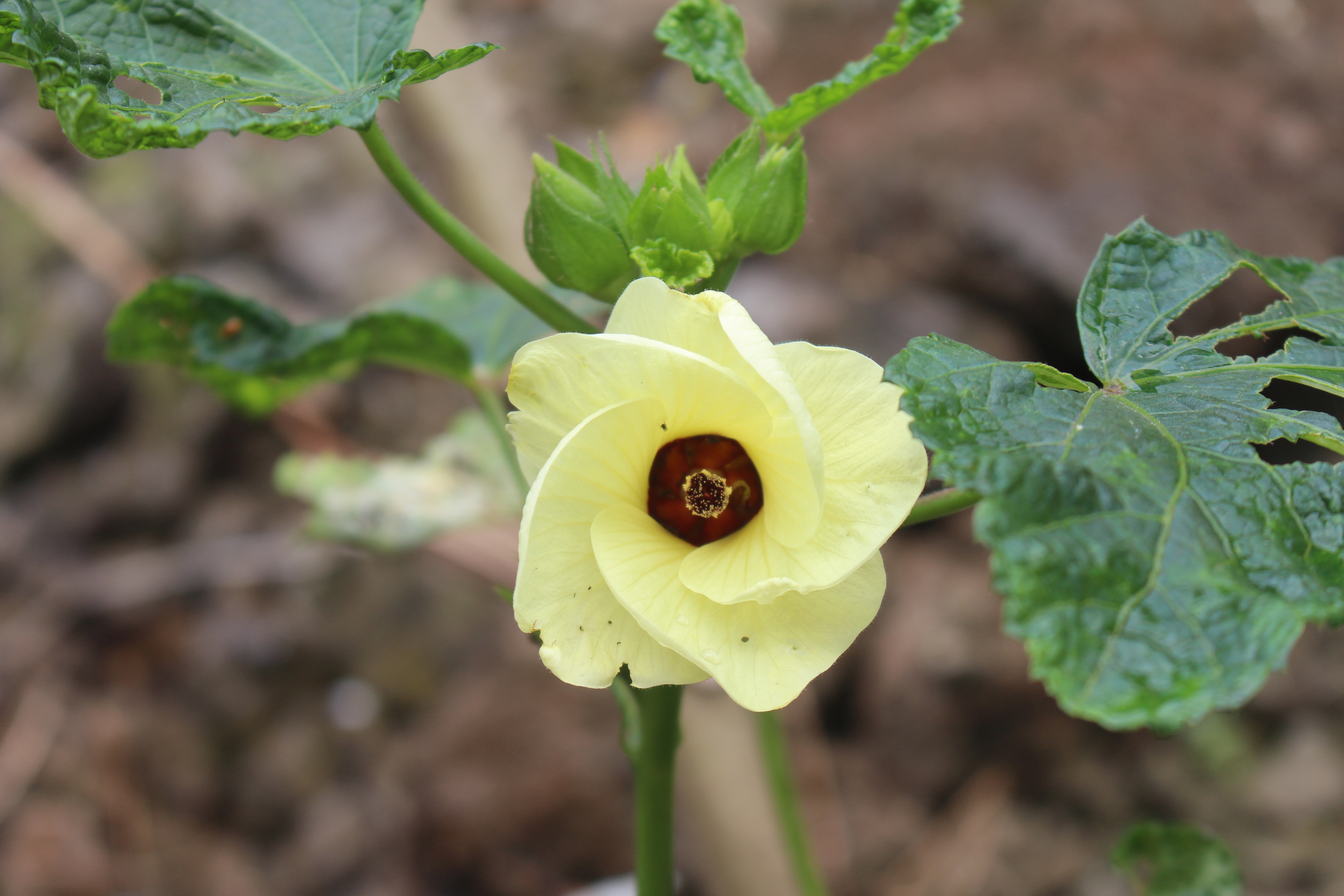 Okro is a vegetable used to make soup eaten with Fufu, Rice, Garri, .. This photo is the flower of the Okro plant. It was shot in the early days of February in Bonduma, Buea, South West, Cameroon. This is the dry season so okro does not do well as in the rainy season. This is an image with the theme "Play" from: Cameroon